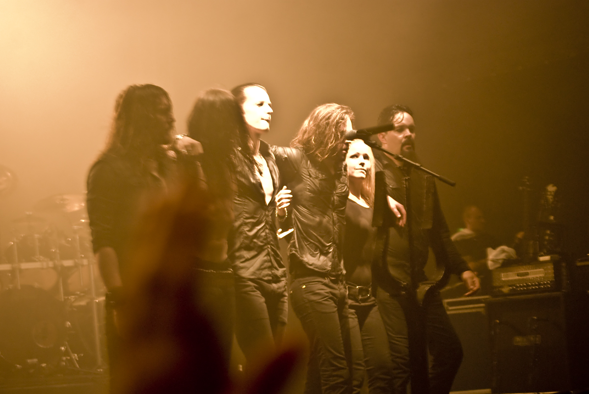 Satyricon live at Sziget festival.